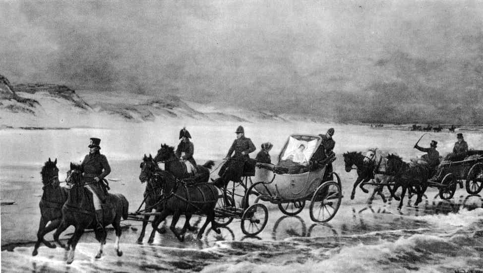 Queen Louise escapes Napoleon by traversing the Curonian Spit.